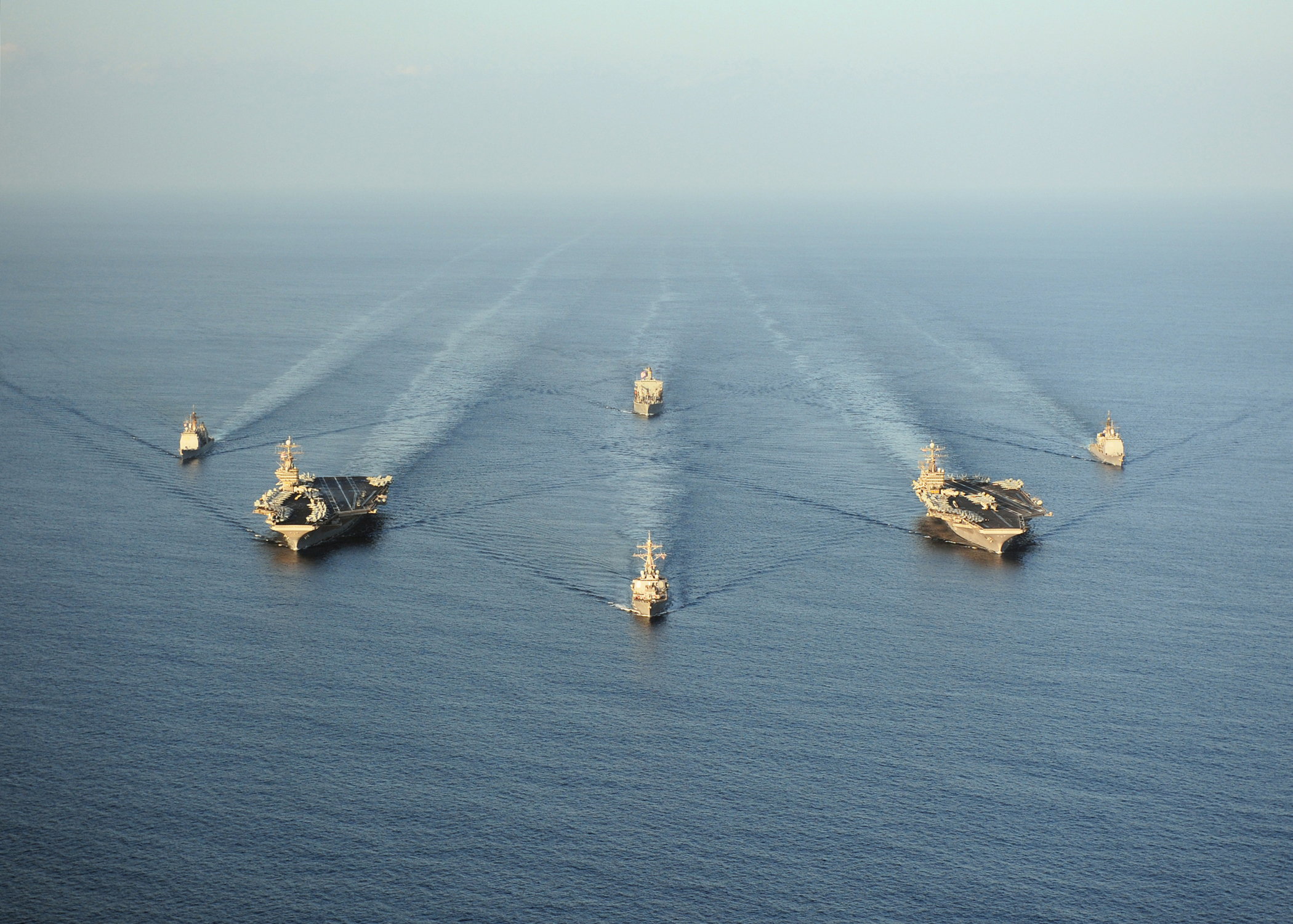 GULF OF OMAN (Nov. 23, 2010) From left, the guided-missile cruiser USS Cape St. George (CG 71), the aircraft carrier USS Harry S. Truman (CVN 75), the Military Sealift Command fleet replenishment oiler USNS Big Horn (T-AO 198), the guided-missile destroyer USS Ross (DDG 71), the aircraft carrier USS Abraham Lincoln (CVN 72), and the guided-missile cruiser USS Normandy (CG 60) cruise in formation. The Abraham Lincoln Carrier Strike Group and the Harry S. Truman Carrier Strike Group are deployed in the U.S. 5th Fleet area of responsibility supporting maritime security operations and theater security cooperation efforts to establish conditions for regional stability. (U.S. Navy photo by Mass Communication Specialist 3rd Class Colby K. Neal/Released)